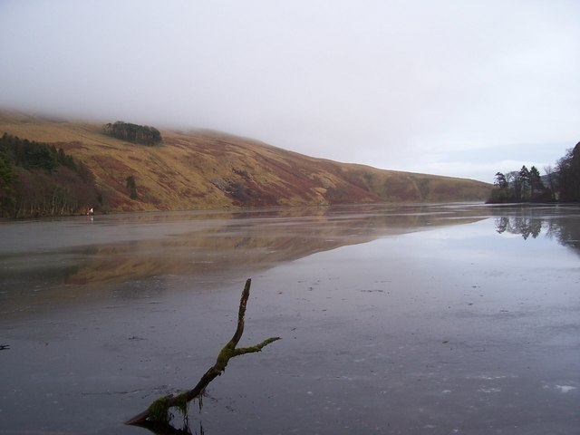 Christmas Eve At Glenbuck Loch A rather quiet corner of East Ayrshire looking particularly dismal.